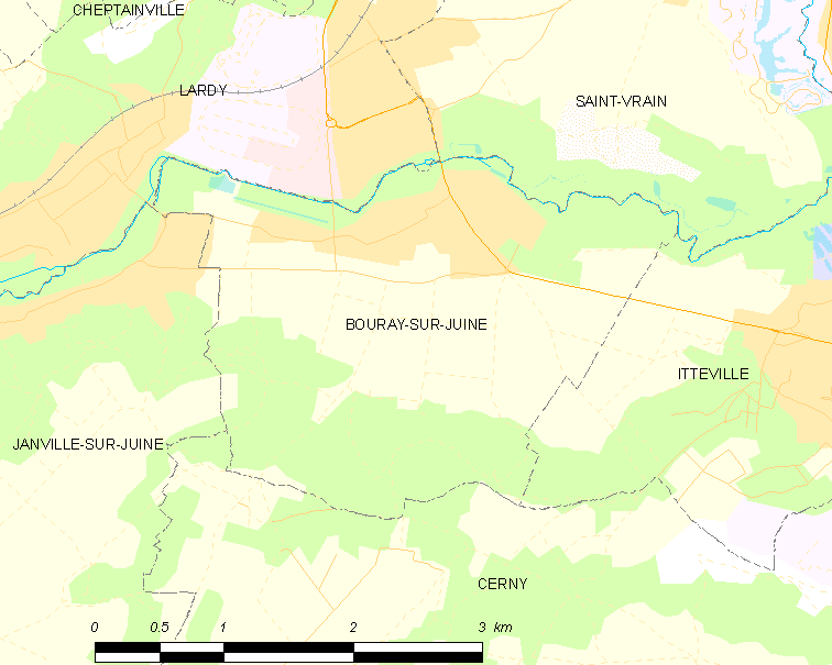 Map of French municipality Bouray-sur-Juine